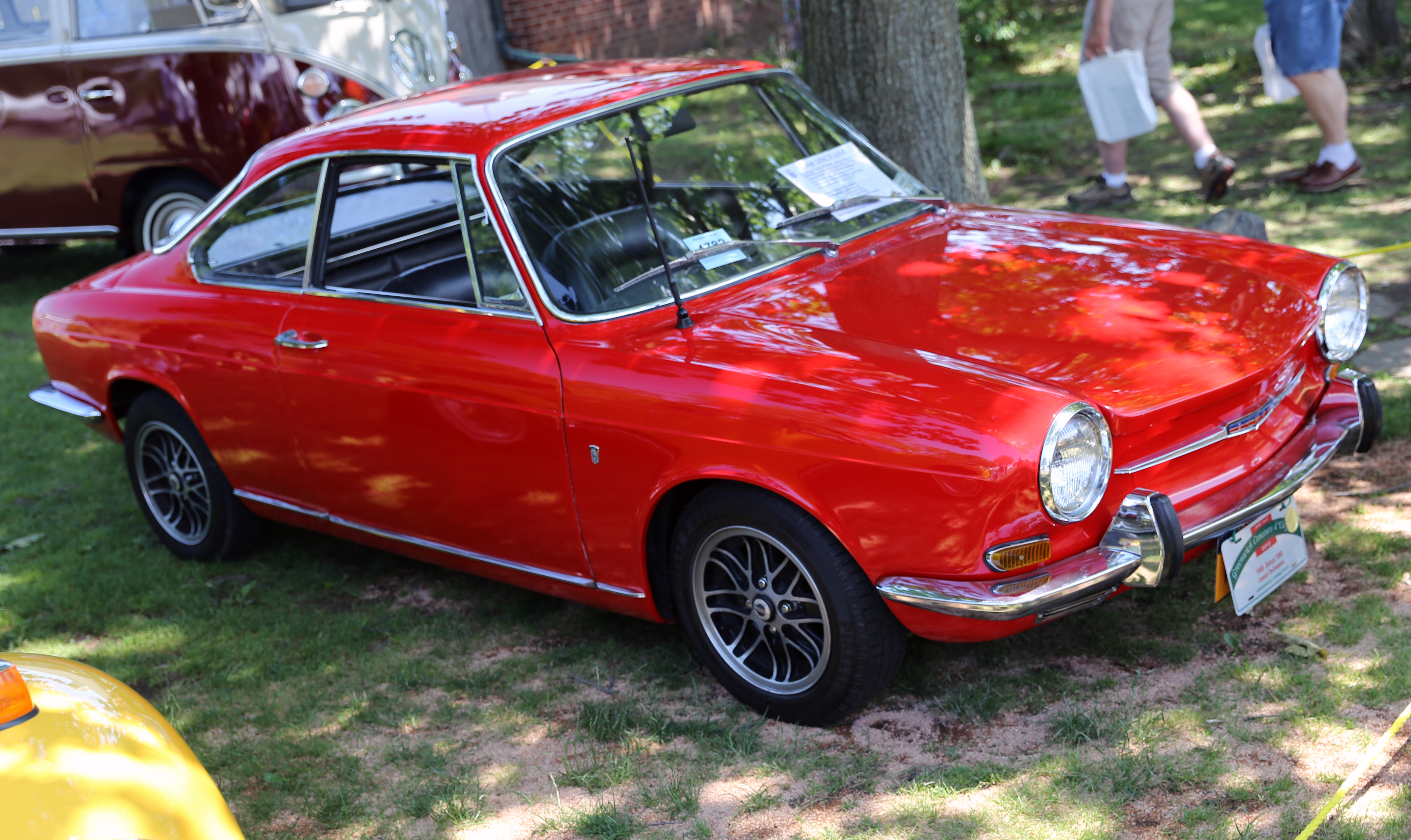 1966 Simca 1000 Coupé at the 2013 Greenwich Concours d'Elegance. About 10,500 of these Bertone-designed (Giugiaro held the pen, actually) little coupés were built between 1963 and 1967. It is thought that only about 300 are still around across the globe.